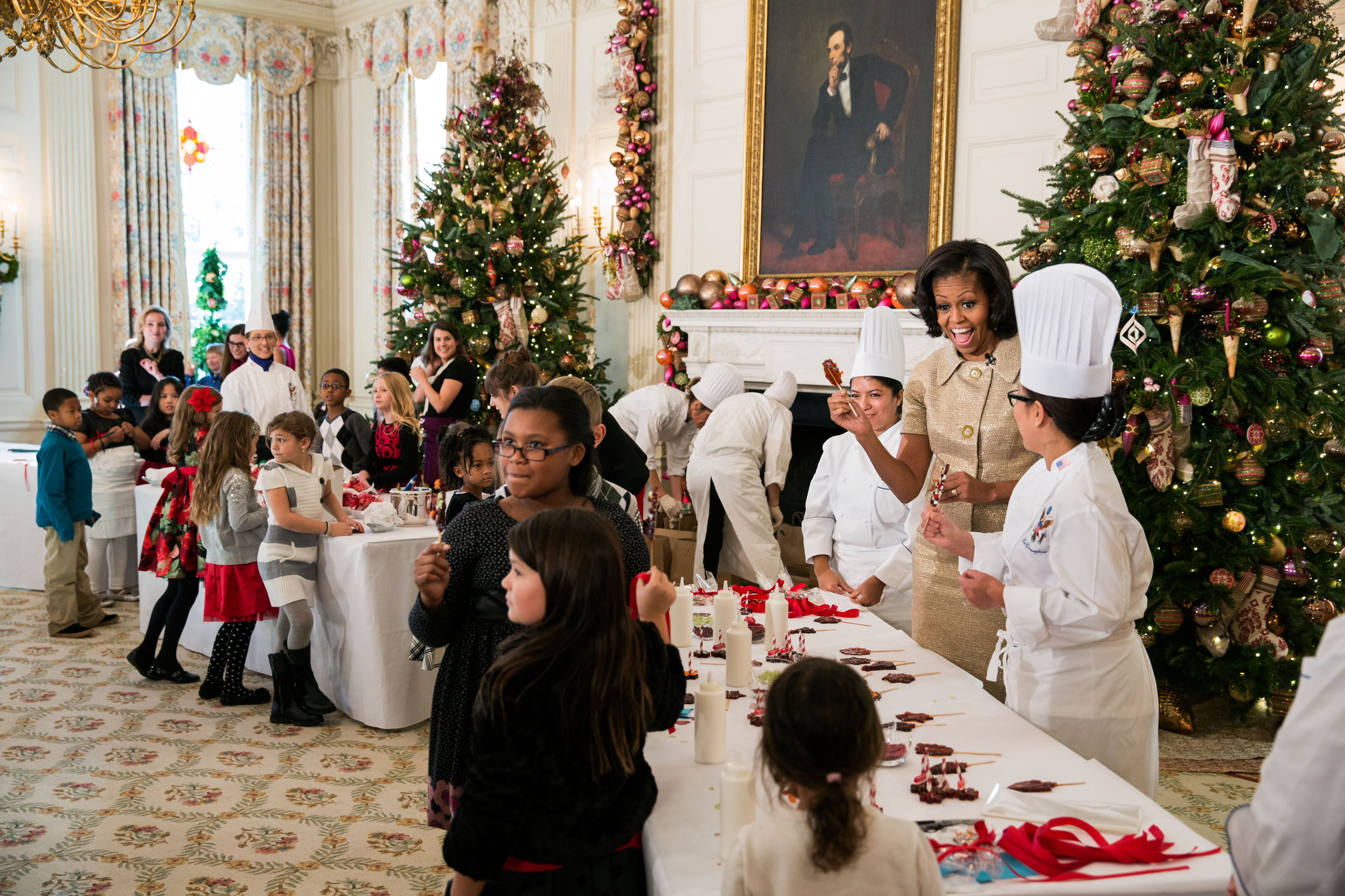 First Lady Michelle Obama and children of military families participate in a craft project in the State Dining Room of the White House during the Christmas holiday press preview, Nov. 28, 2012. White House Executive Chef Cris Comerford and children make White House honey tea stirrers. East Wing Staff Meg Freshwater and Elizabeth Pan assist at activity stations.